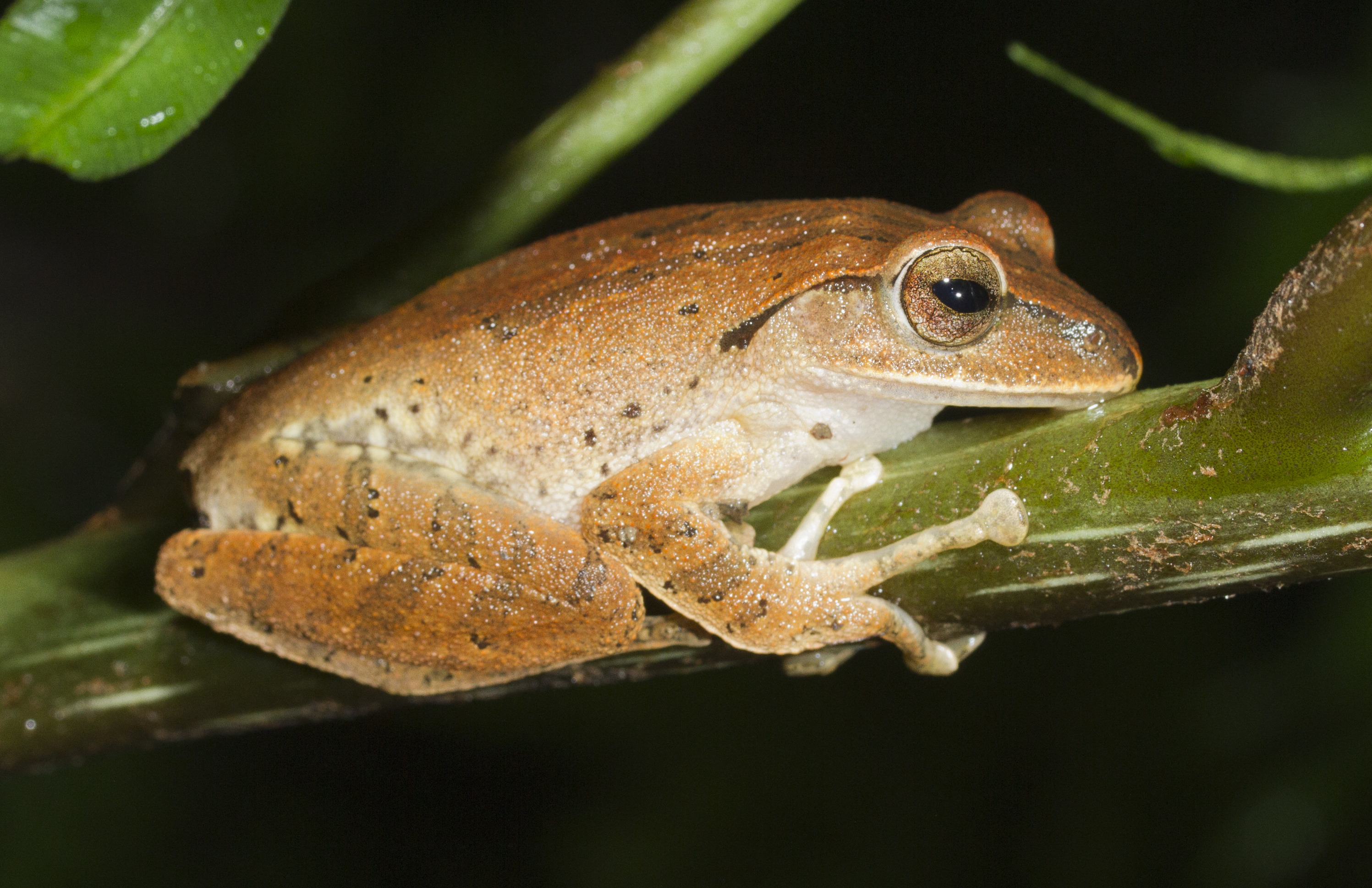 Polypedates braueri from Taipei, Taiwan